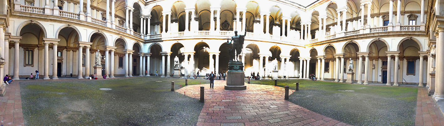 Panorama view of the main court of Brera Academy in Milan, Italy.